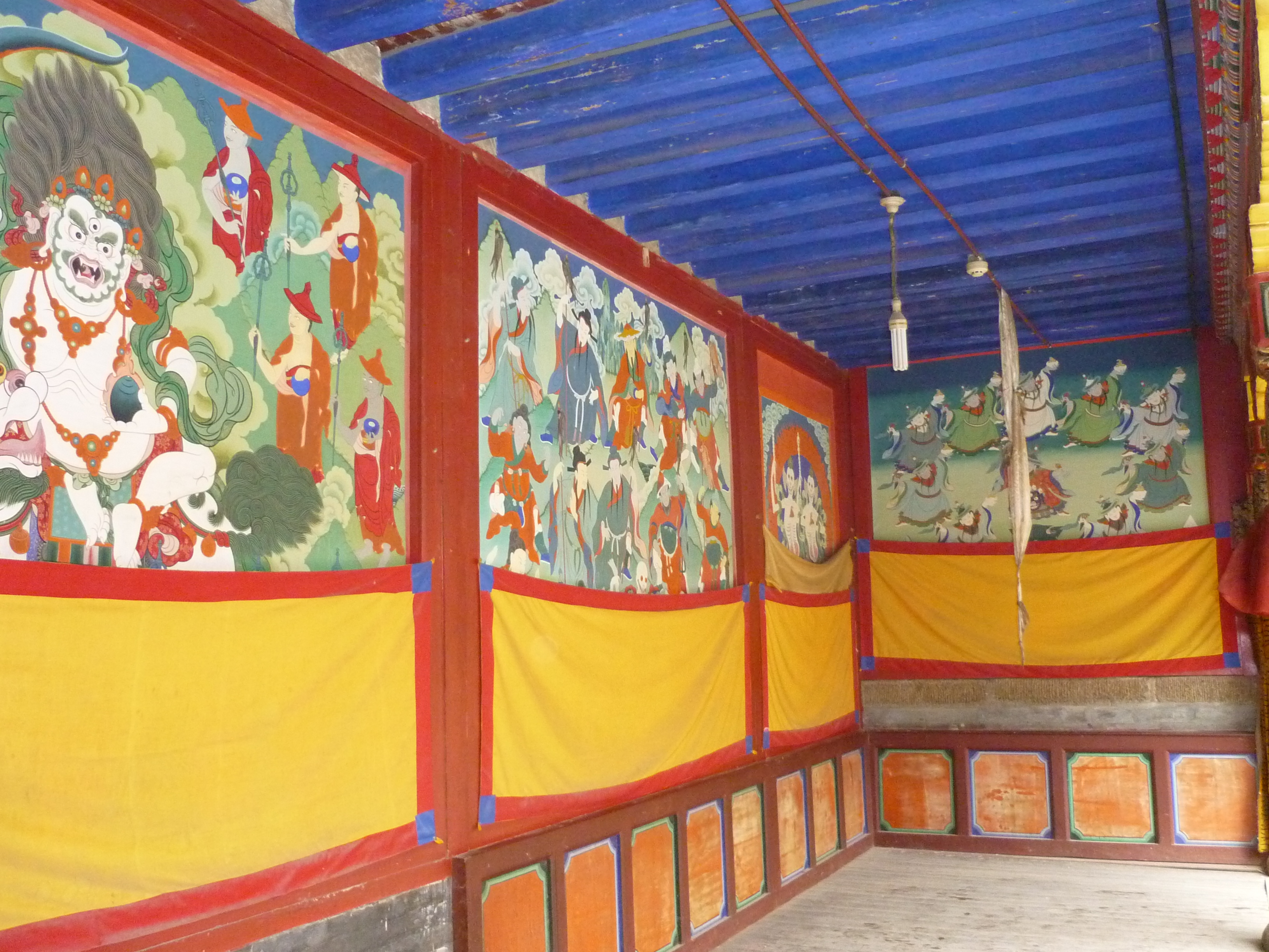 Kumbum (Kloster der Hunderttausend Bilder des Buddha Maitreya oder塔尔寺Tǎ’ěrsì, Ta'er-Kloster) in der chinesischen Provinz Qinghai, ist ein tibetisch-buddhistisches Kloster aus der Zeit der Ming-Dynastie (1560).